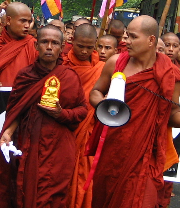 Monks Protesting in Burma (cropped version)